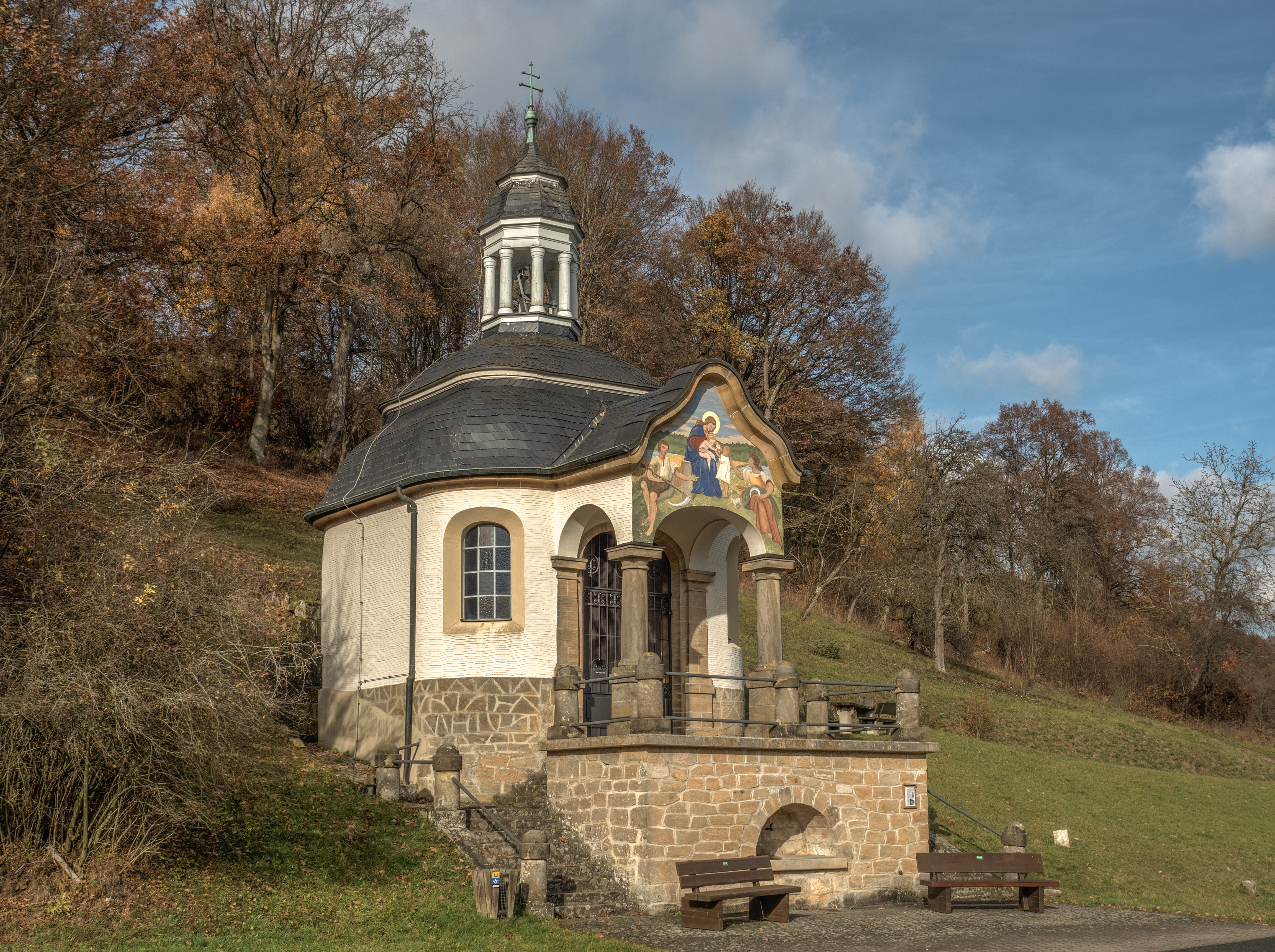 Maria-Hilf Chapel near the city Weismain in Upper Franconia